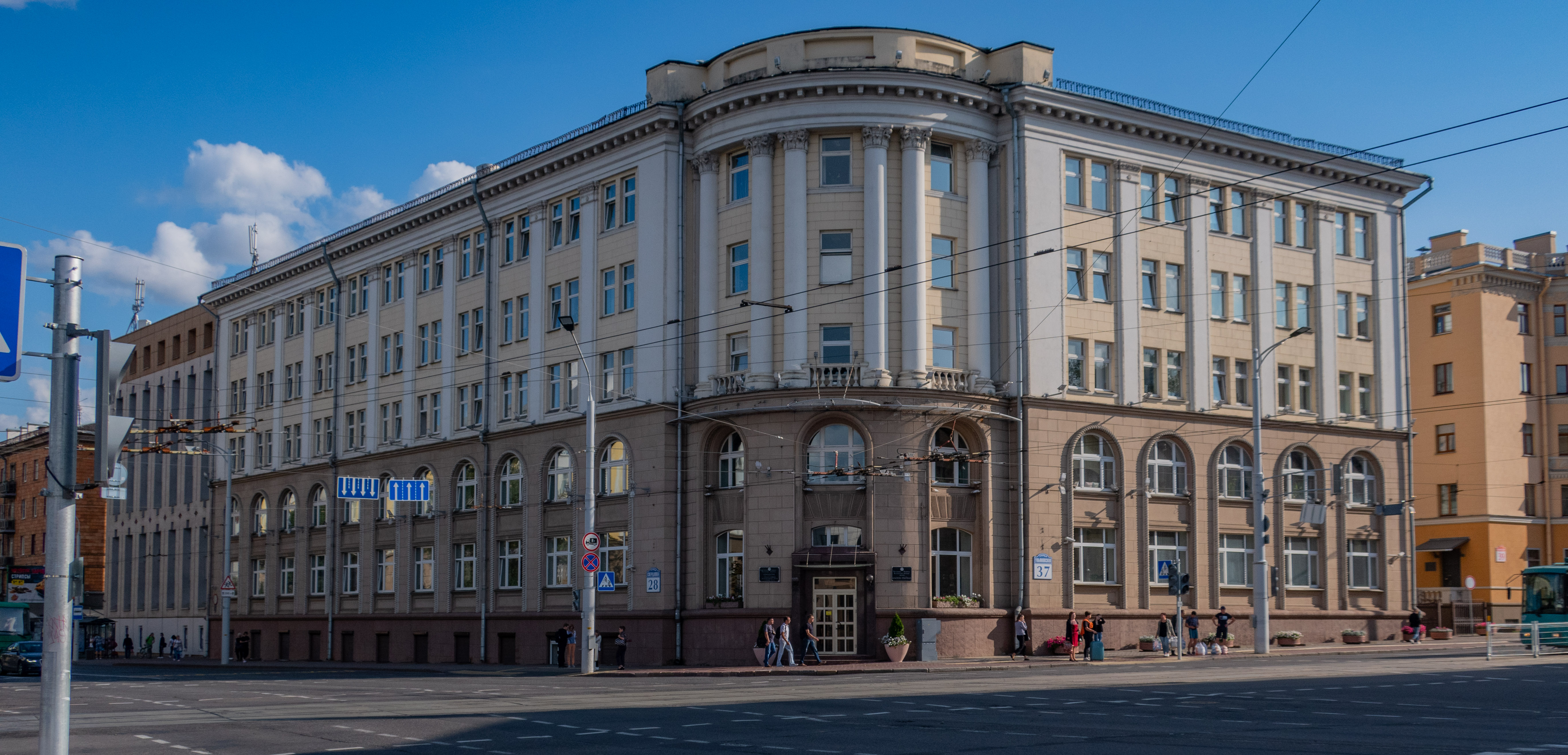 Sviardlova street / 37 Uĺjanaŭskaja street. Minsk, Belarus